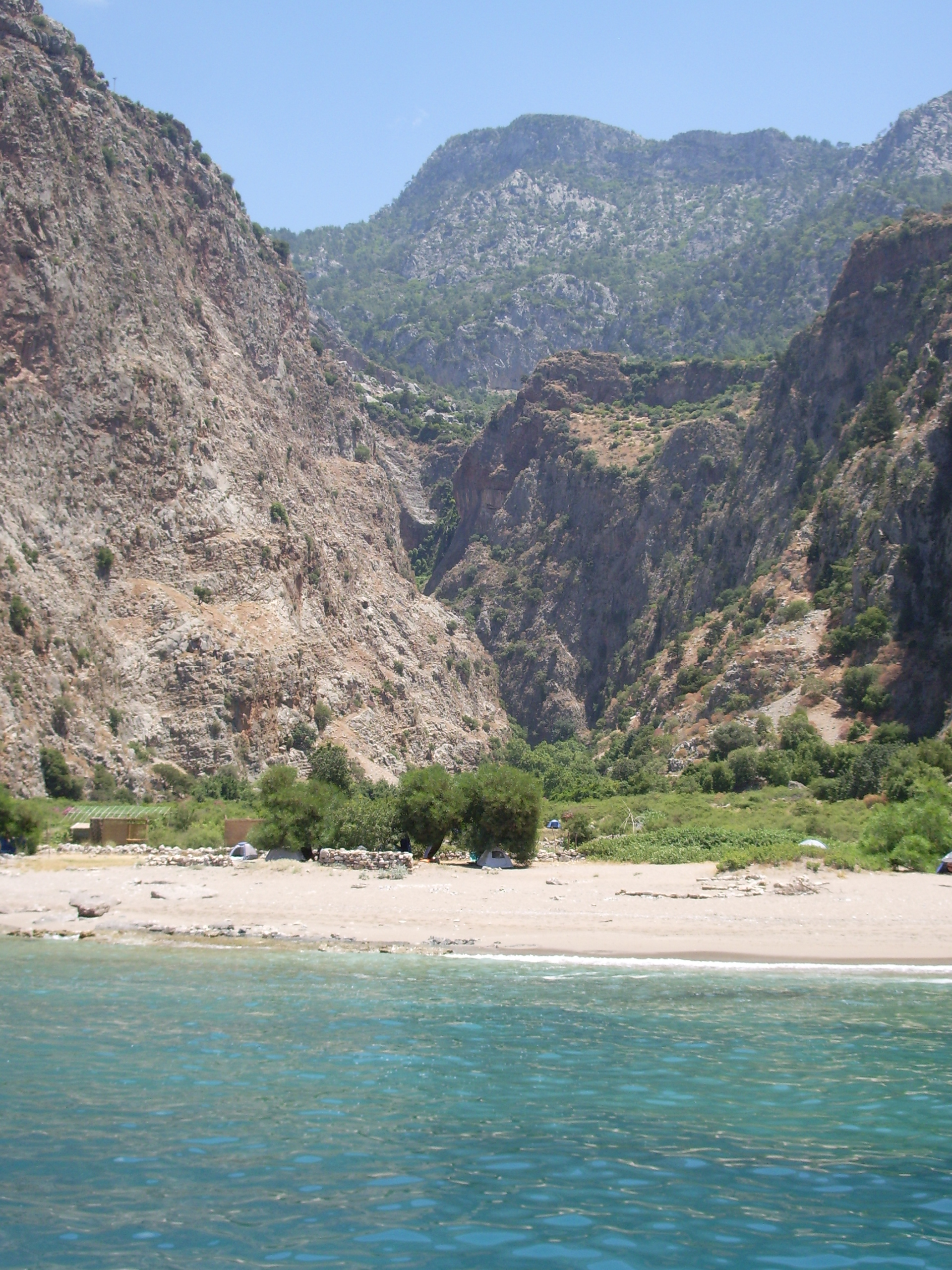 Butterfly Valley, Butterfly Valley (Kelebekler Vadisi) near Faralya, Turkey, when approaching by boat